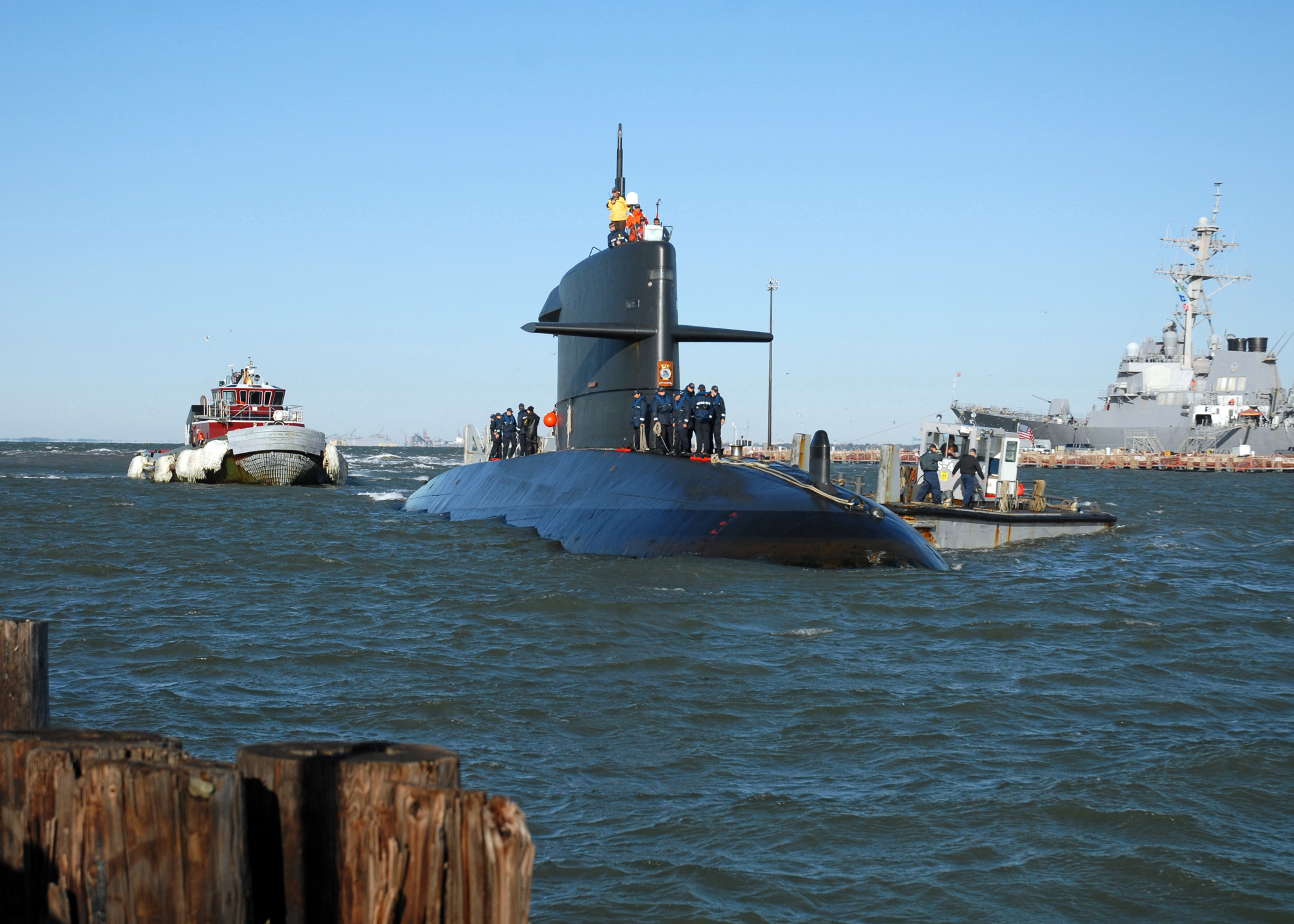 081028-N-6011D-013 NORFOLK, Va. (Oct. 28, 2008) The Dutch submarine HNLMS Walrus, S-802, prepares to moor at Naval Station Norfolk, VA, USA.